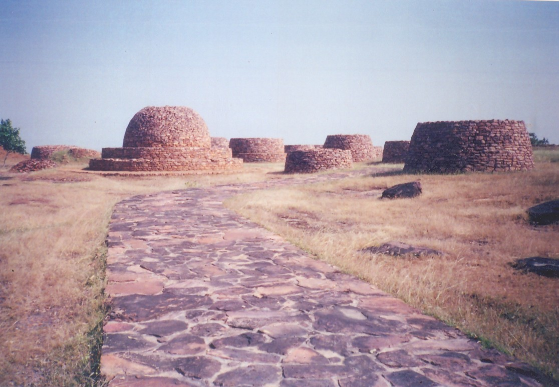 Self created image of Deorkothar stupas